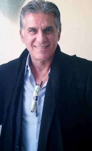 Carlos Queiroz, former Portugal and Real Madrid and current Iran manager, in Tehran.